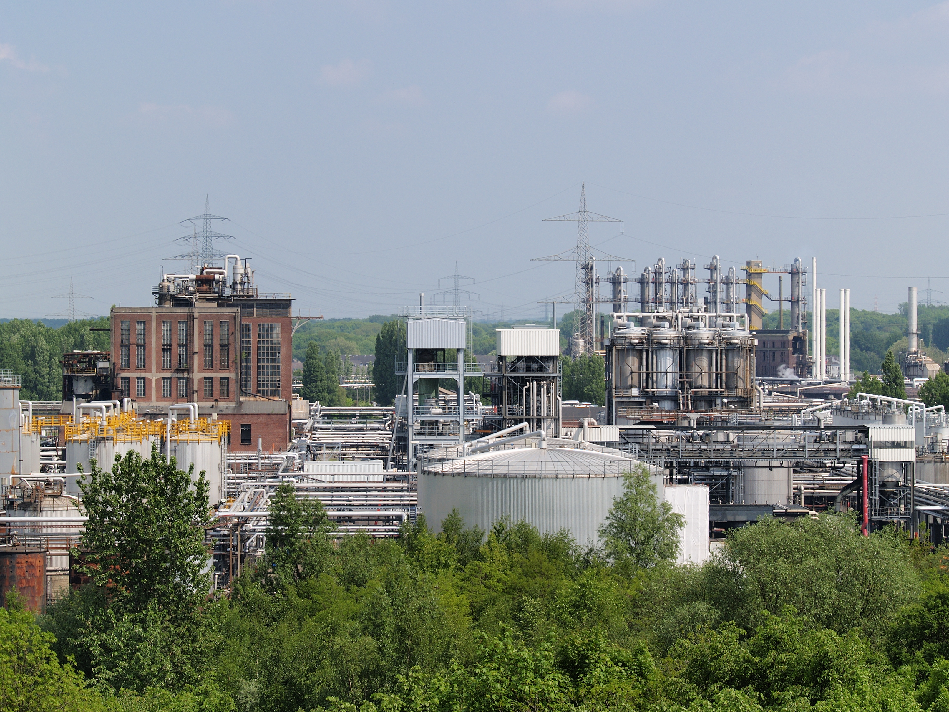 Plant of Ruetgers Chemicals GmbH at Castrop-Rauxel, Germany